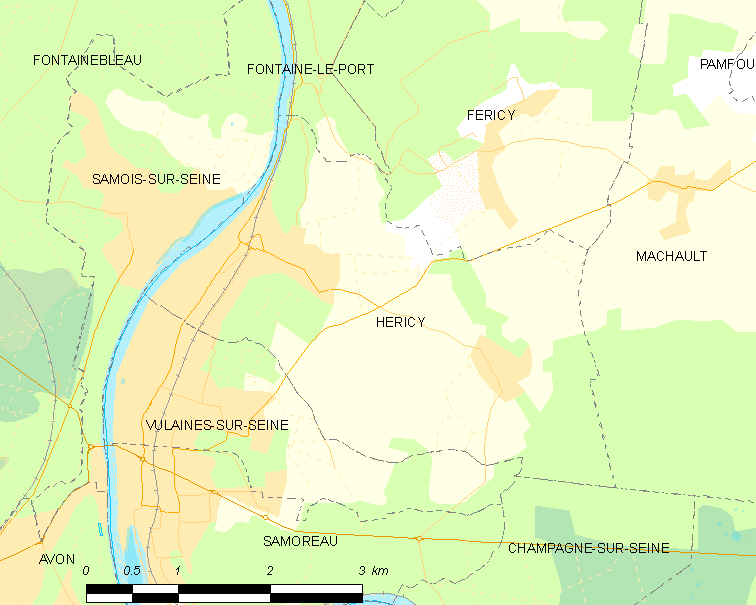 Map of French municipality Héricy